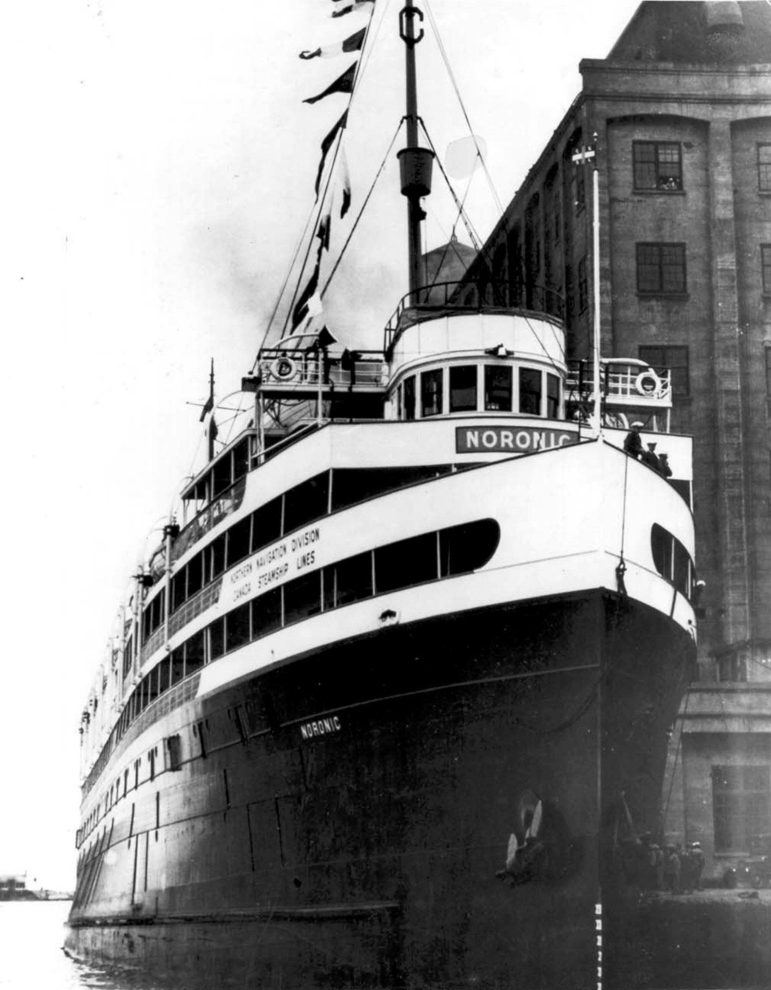 S.S. Noronic docked at Maple Leaf Dock, Port Colborne, ON. 1931. City of Toronto Archives Fonds 1244, Item 1429